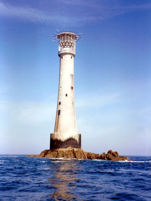 Bishop Rock Lighthouse stands on a rock ledge 46m long by 16m wide, 4 miles west of the Scilly Isles.